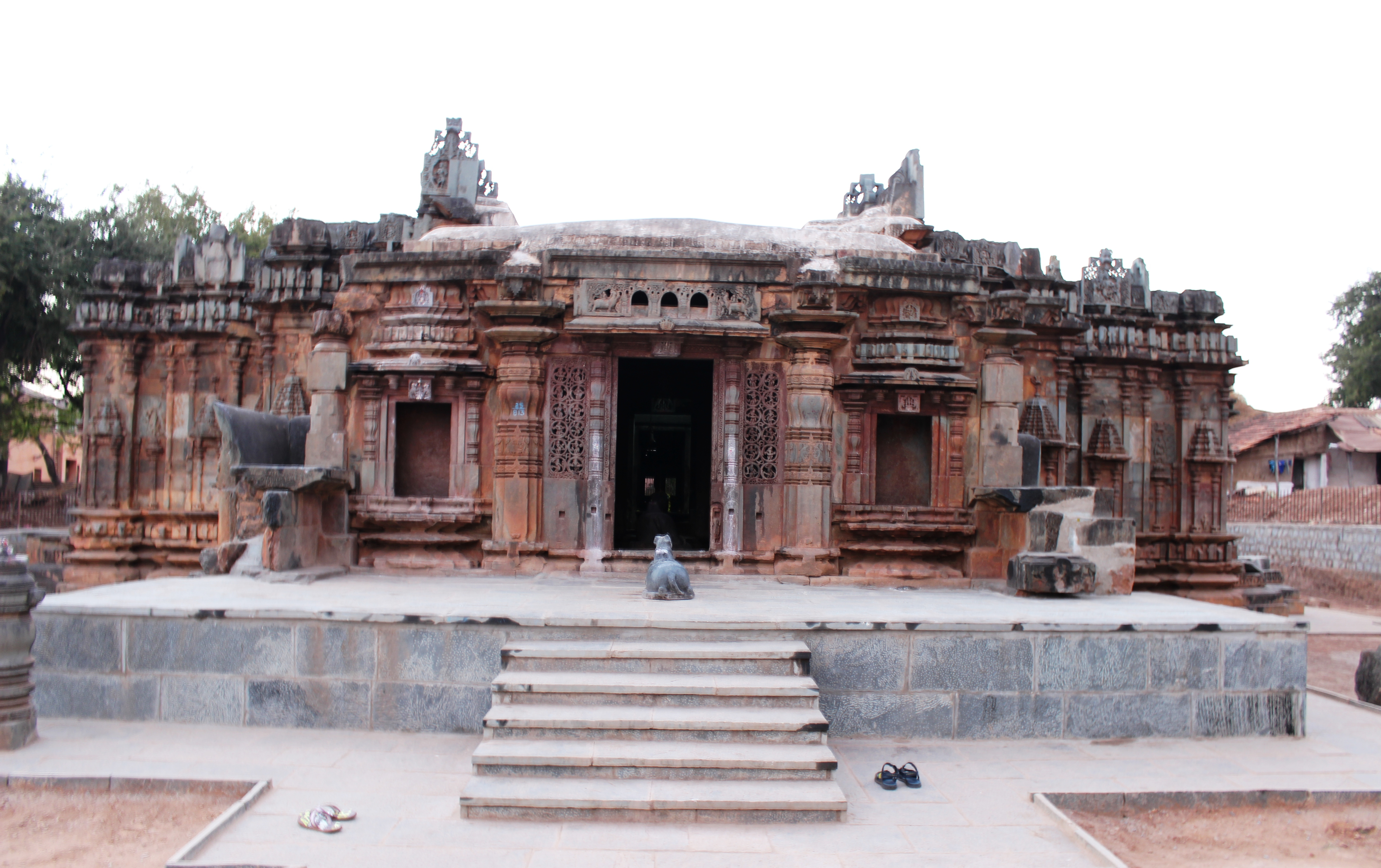 The main entrance of Chandraouleshware Temple